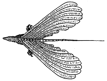 Longisquama insignis